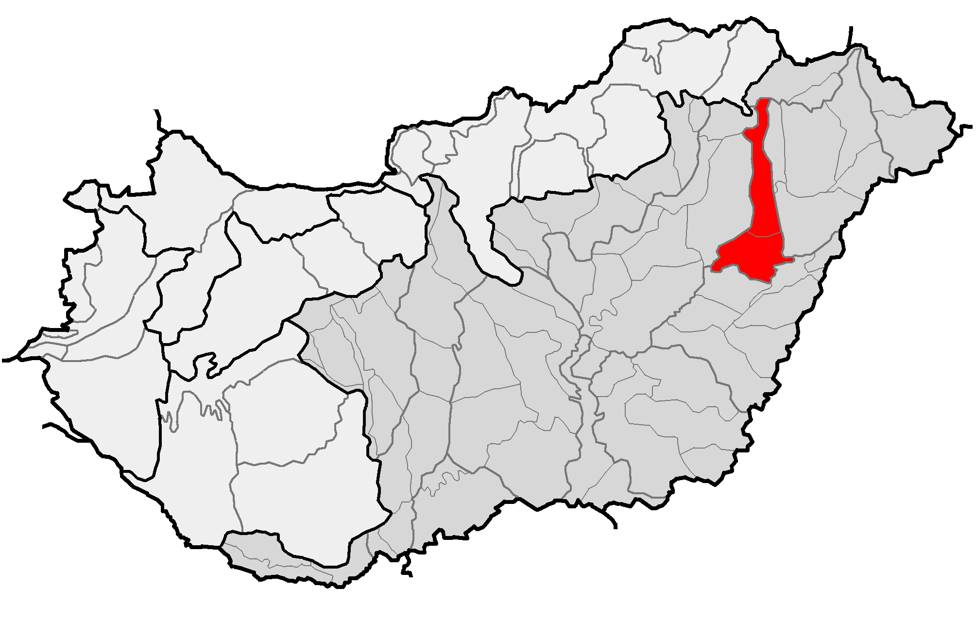 Location of geographical mesoregion of Hajdúság (red) and macroregion of Alföld (gray) within subdivisions of Hungary.